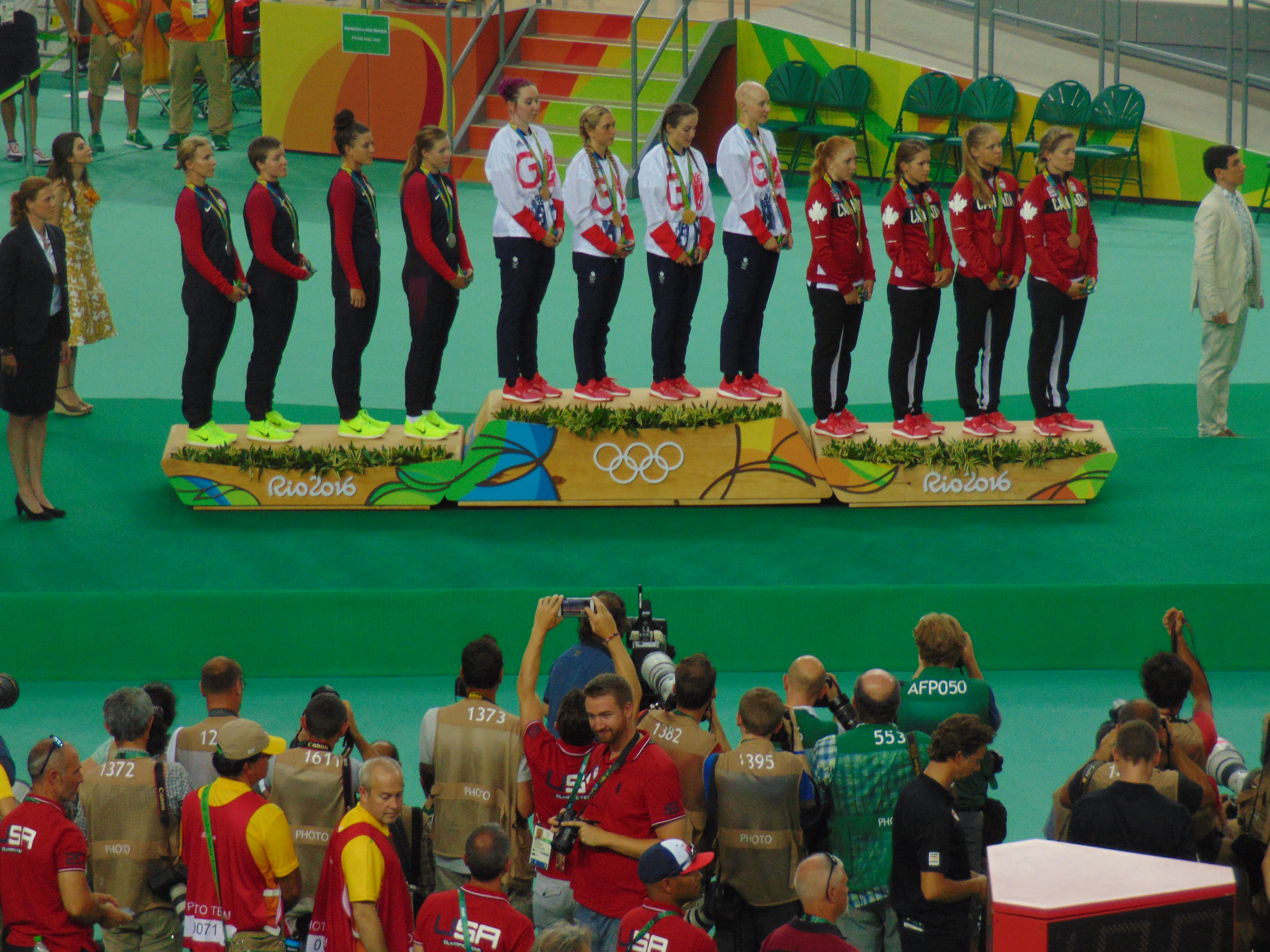 Rio 2016 - Track cycling 13 August (CT004)